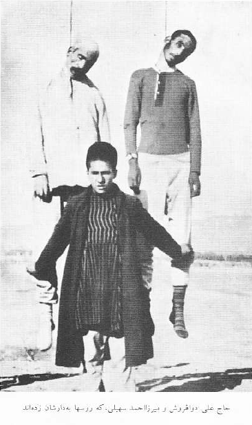 Execution of Haj Ali Dava Foroush and Mirza Ahmad Soheili, 1911